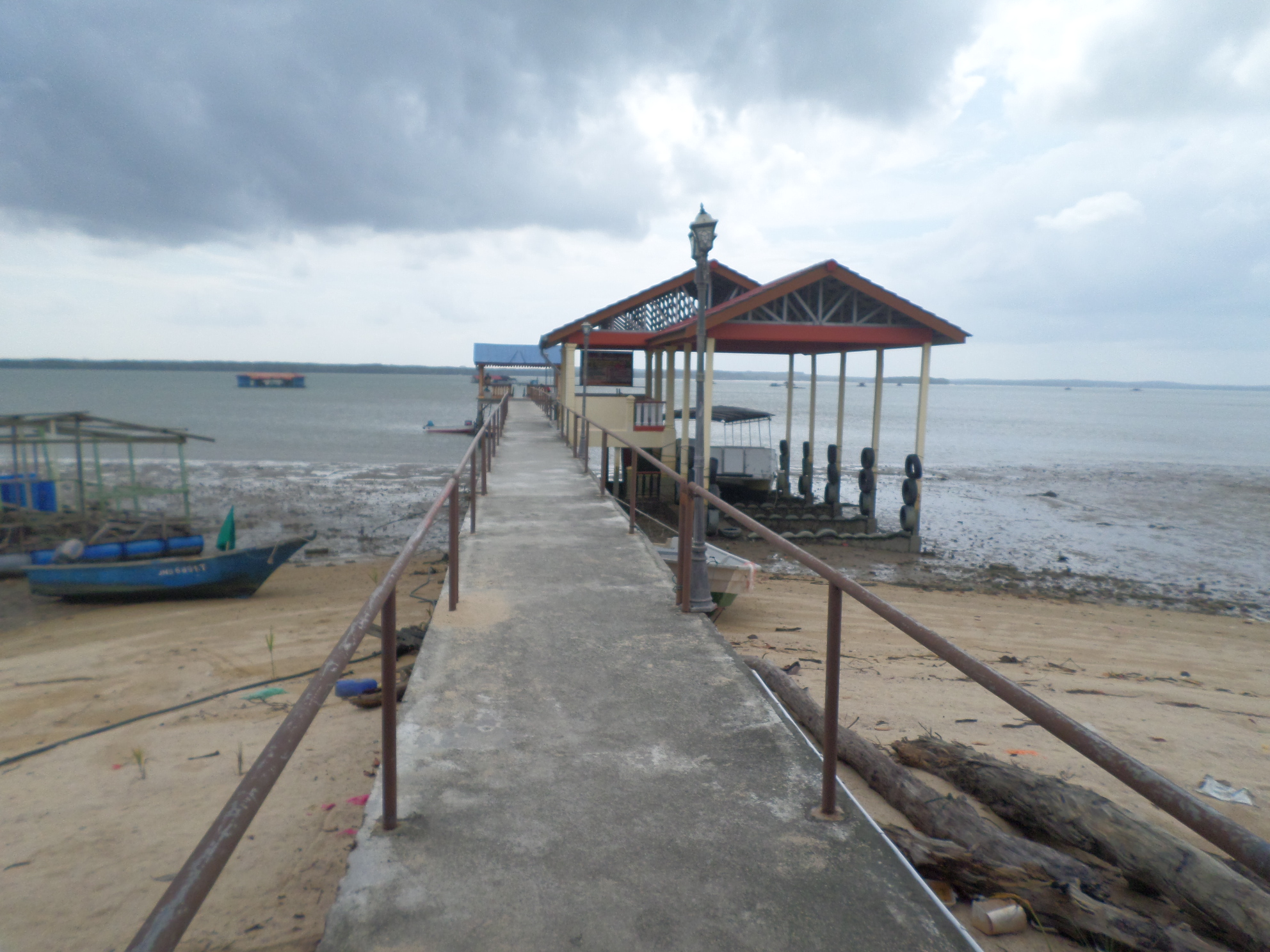 Johor Lama Village Jetty, Johor Lama, Kota Tinggi, Johor, Malaysia